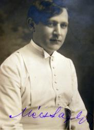 László Mécs (1895-1978), hungarian premonstratensian priest, poet